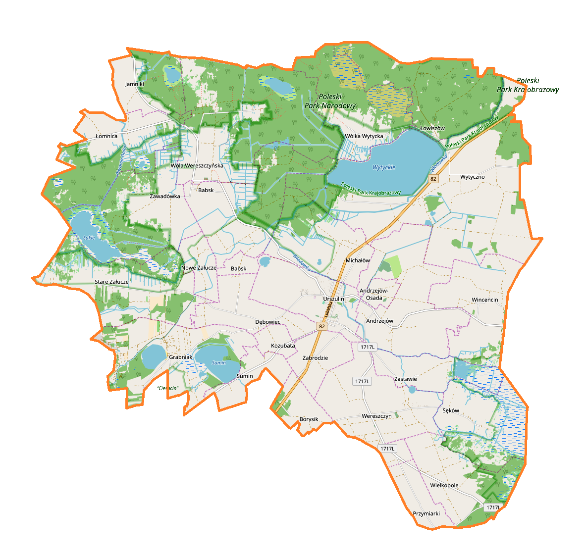 Location map